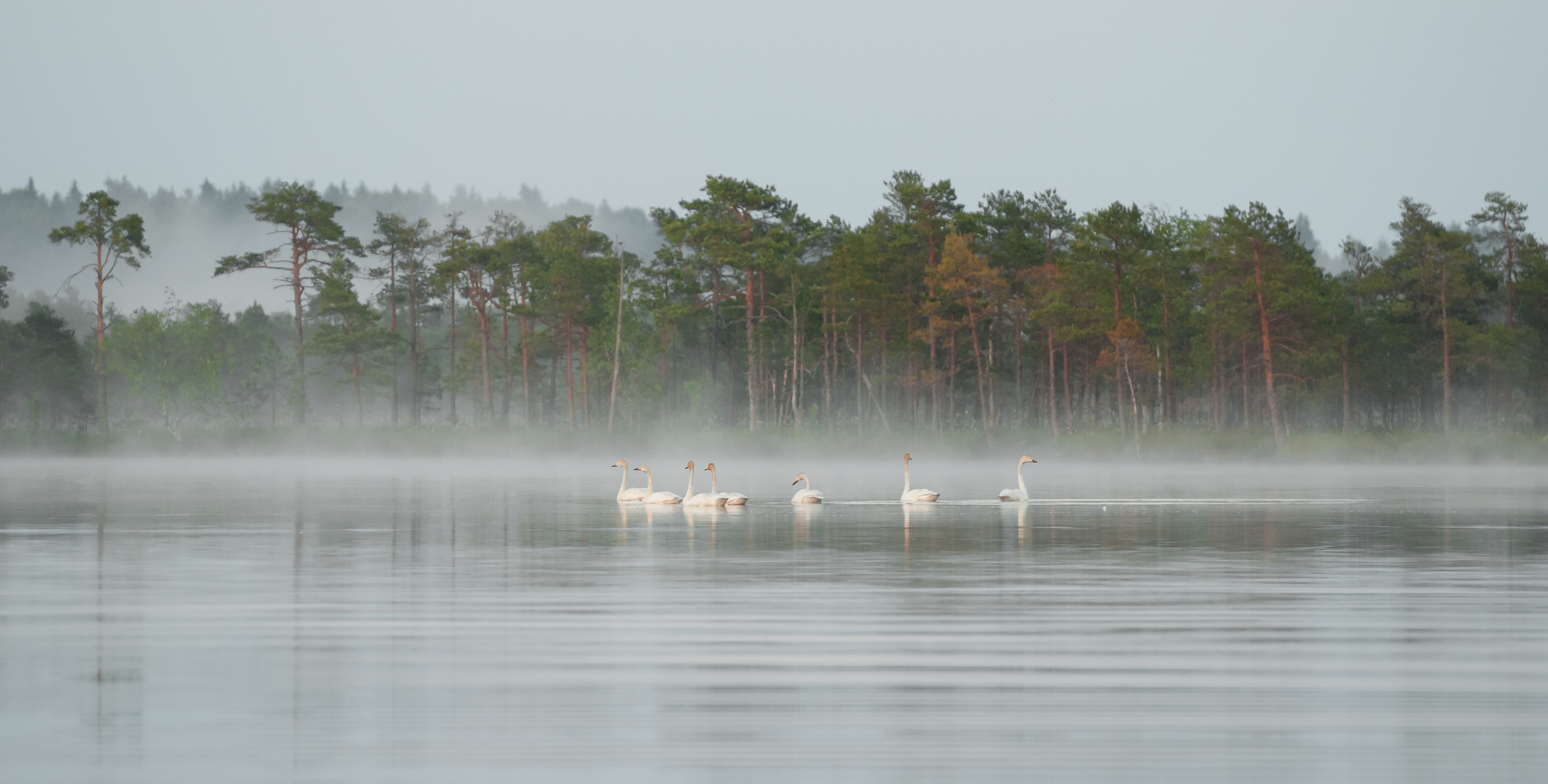 Whooper Swans (Cygnus cygnus) on Lake Kakerdi, Kakerdaja Bog, Estonia